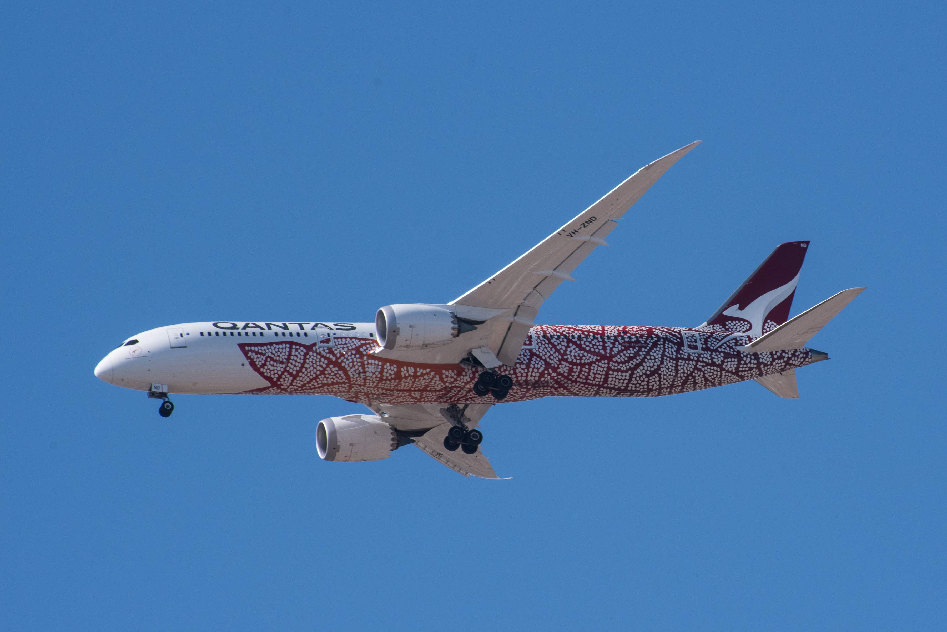 VH-ZND Boeing 787-9 Dreamliner - this Qantas aircraft is named Emily Kame Kngwarreye and painted in special livery based on her work Yarn Dreaming